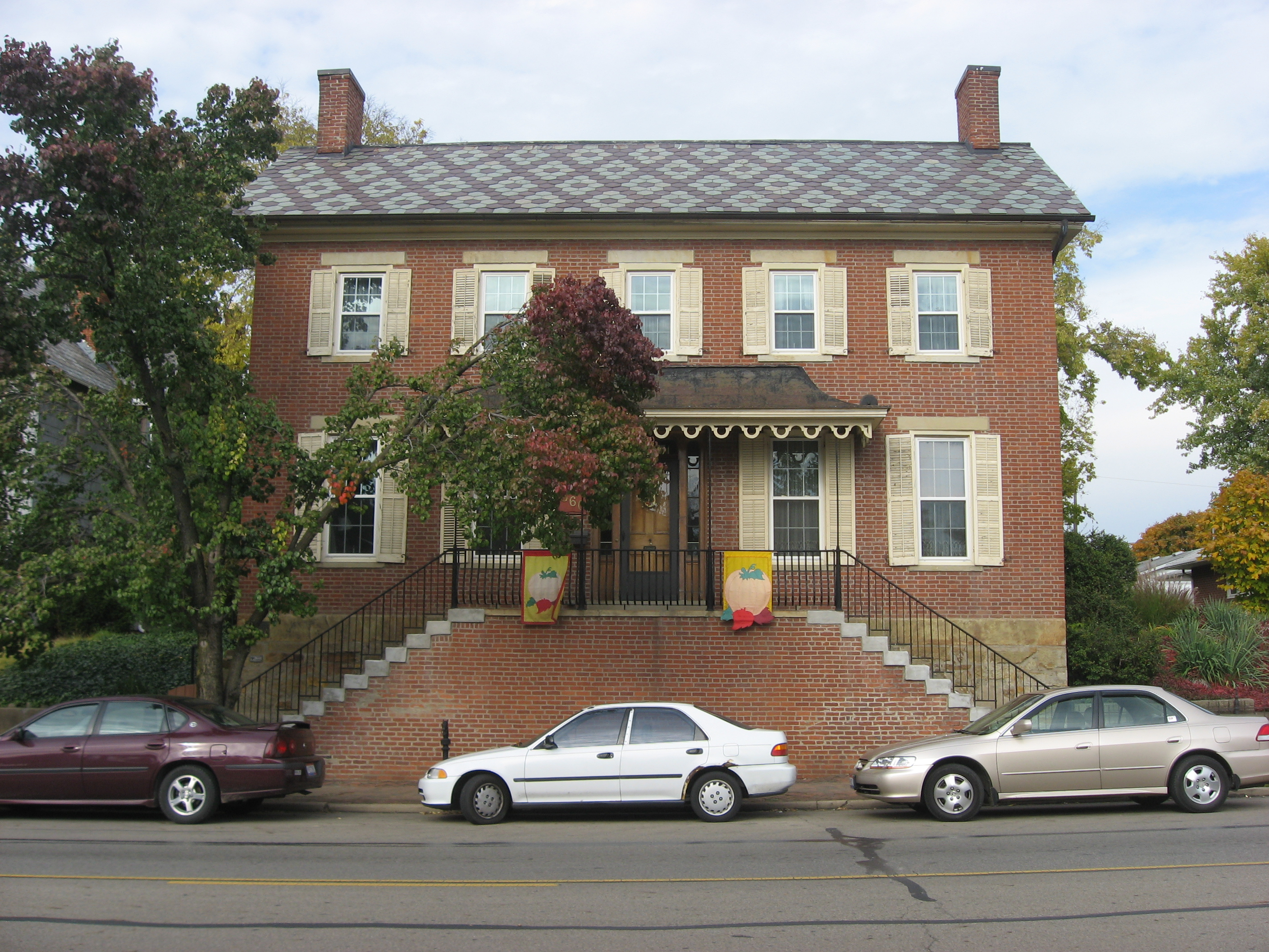 Front of the Watt-Groce-Fickhardt House, located at 360 E. Main Street (U.S. Route 22 and State Route 56) in Circleville, Ohio, United States. Built in 1826, the house is listed on the National Register of Historic Places.